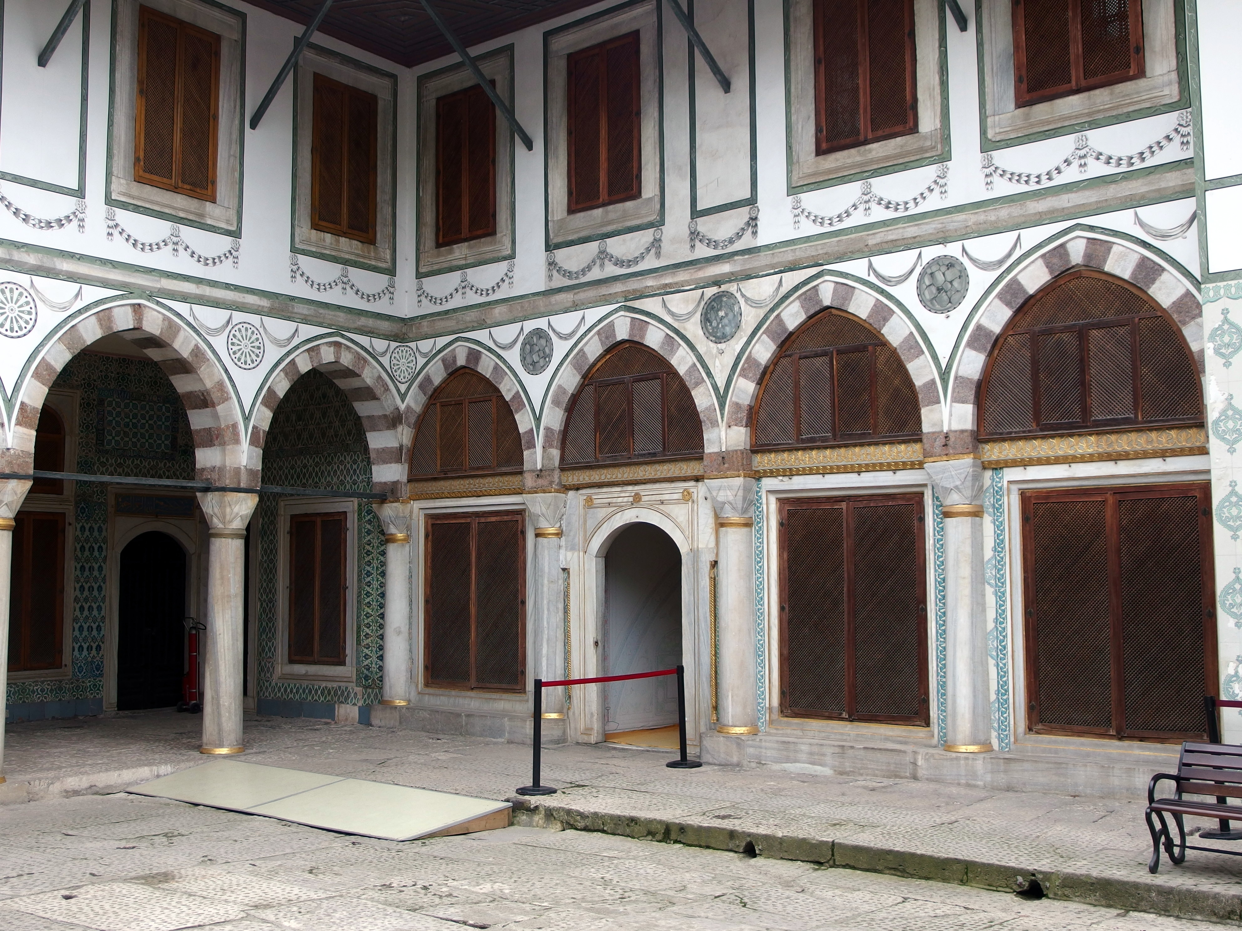 2013-12-04 in Istanbul.